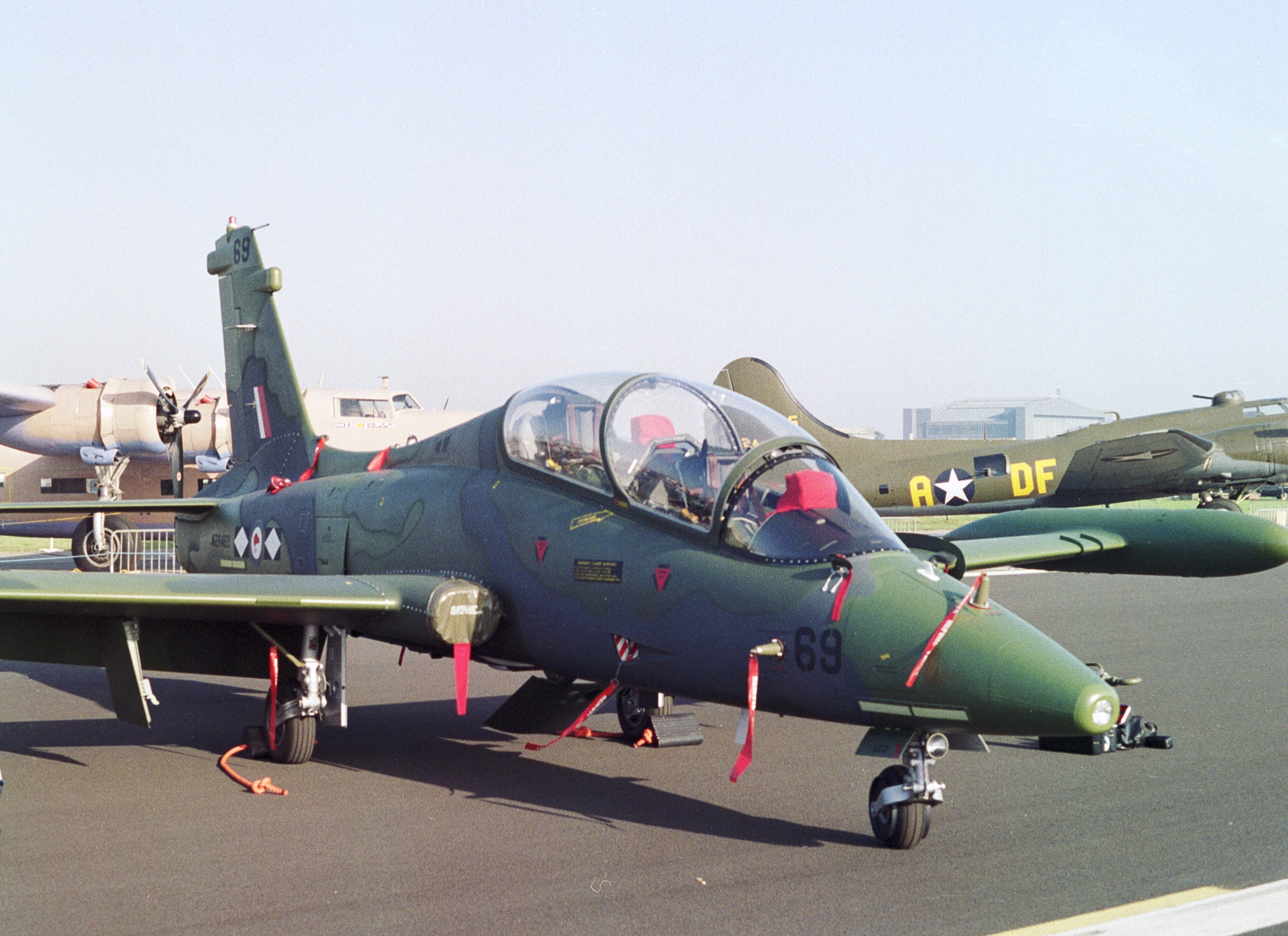 Air Tattoo International, RAF Boscombe Down - UK, June 13 1992.